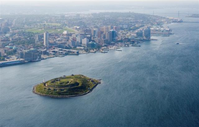 Aerial photo of Georges Island Halifax Harbour